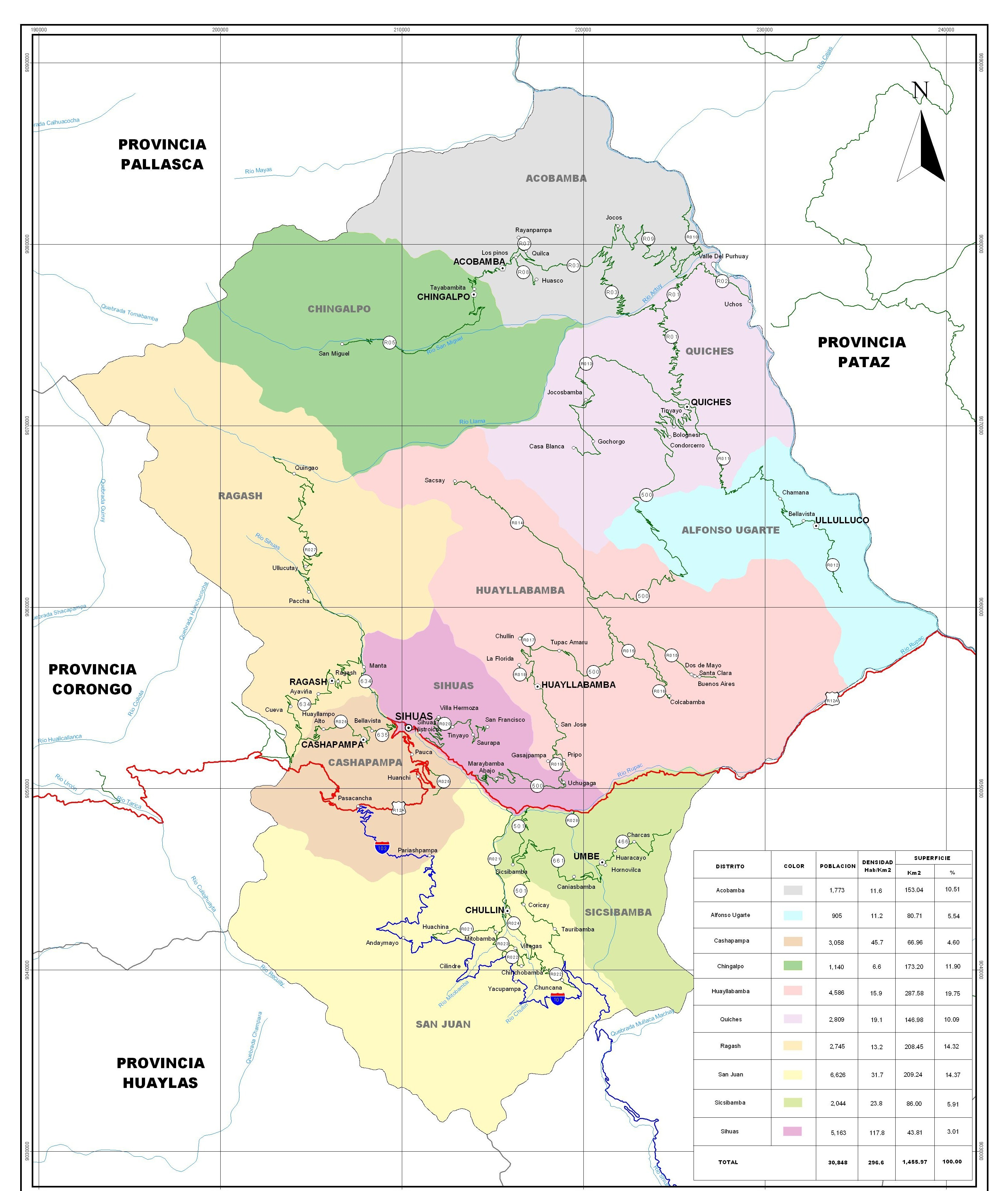 mapa de sihuas